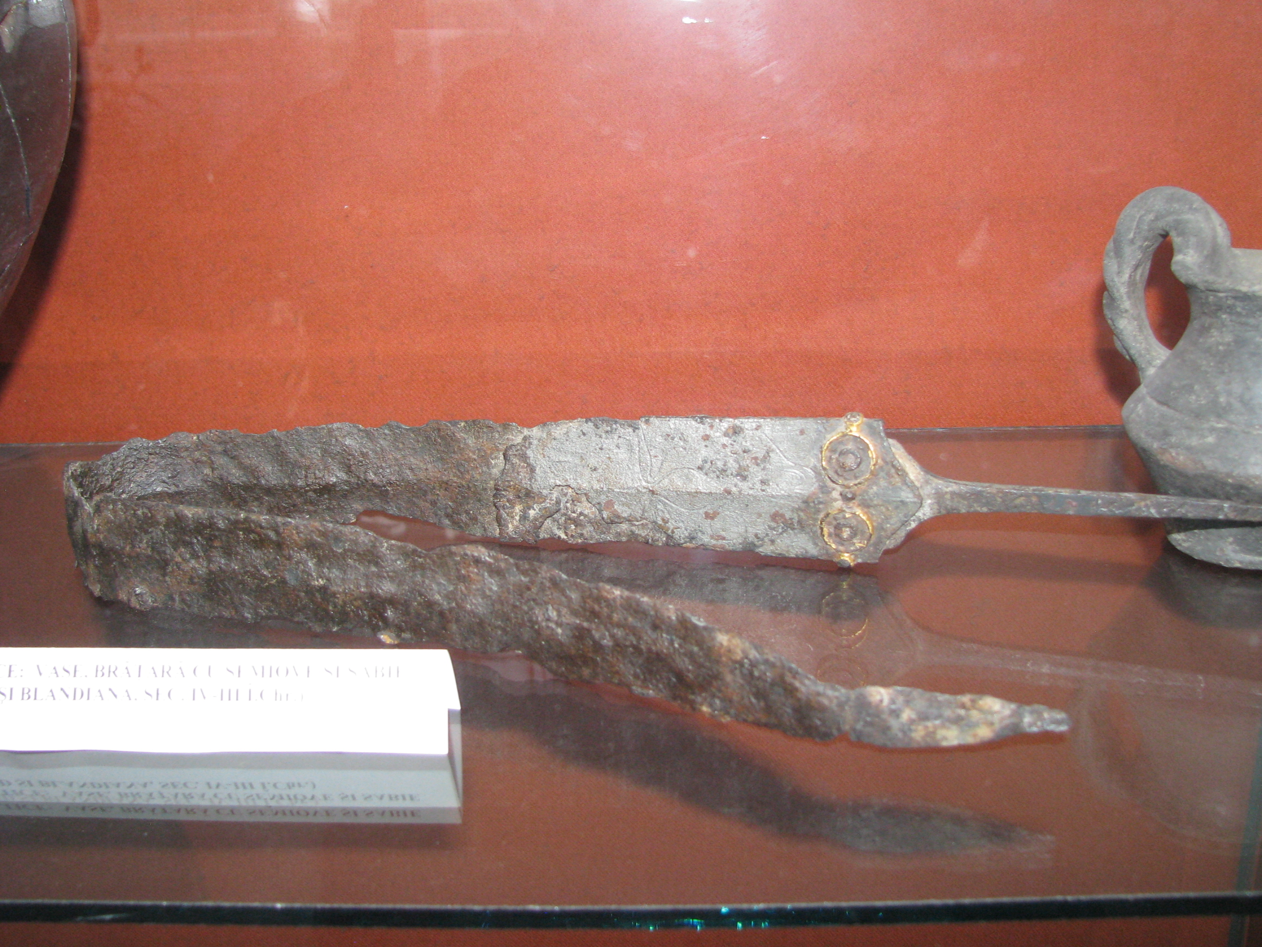 Alba Iulia National Museum of the Union 2011